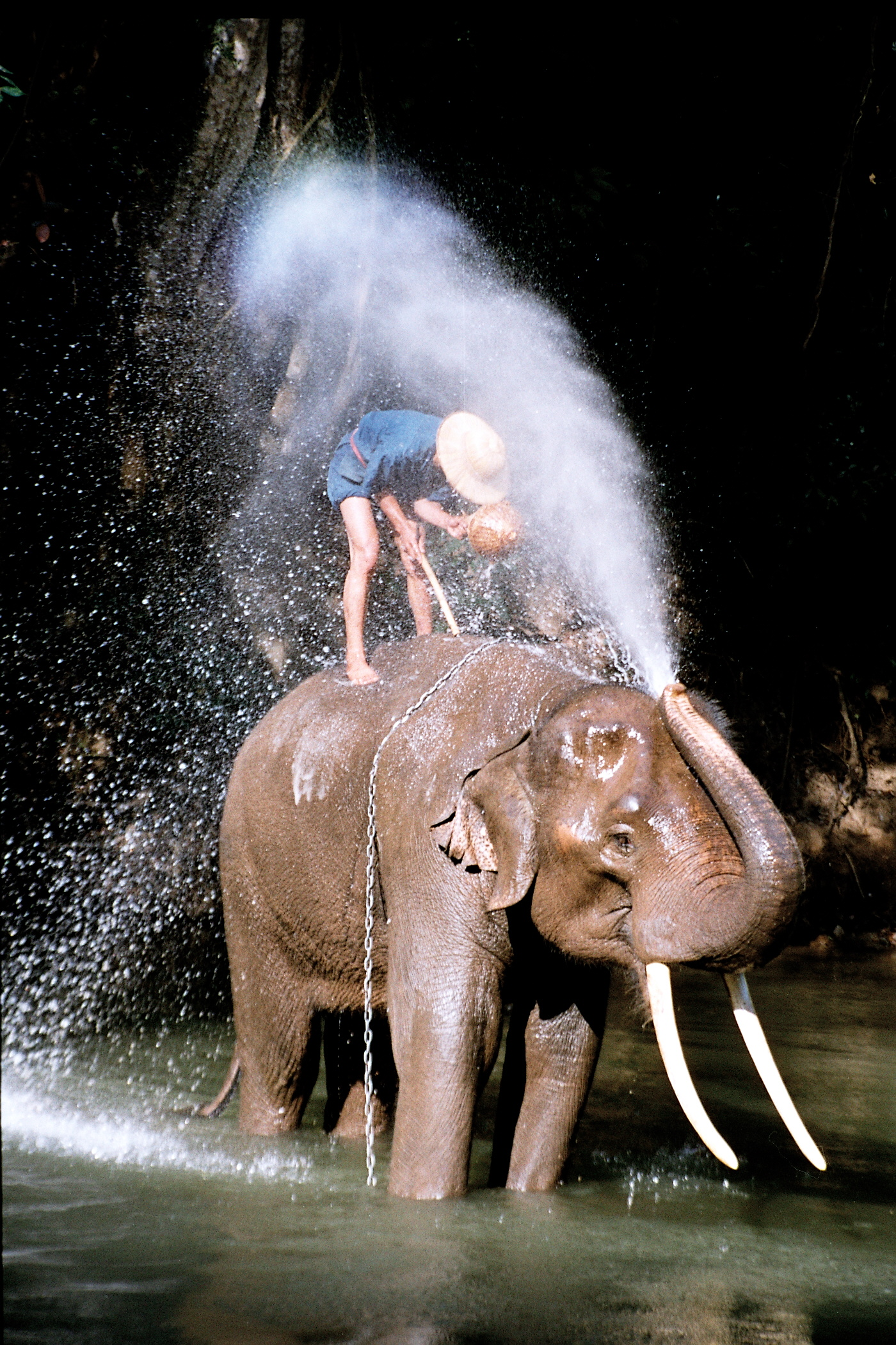 Working elephant and mahout in Thailand